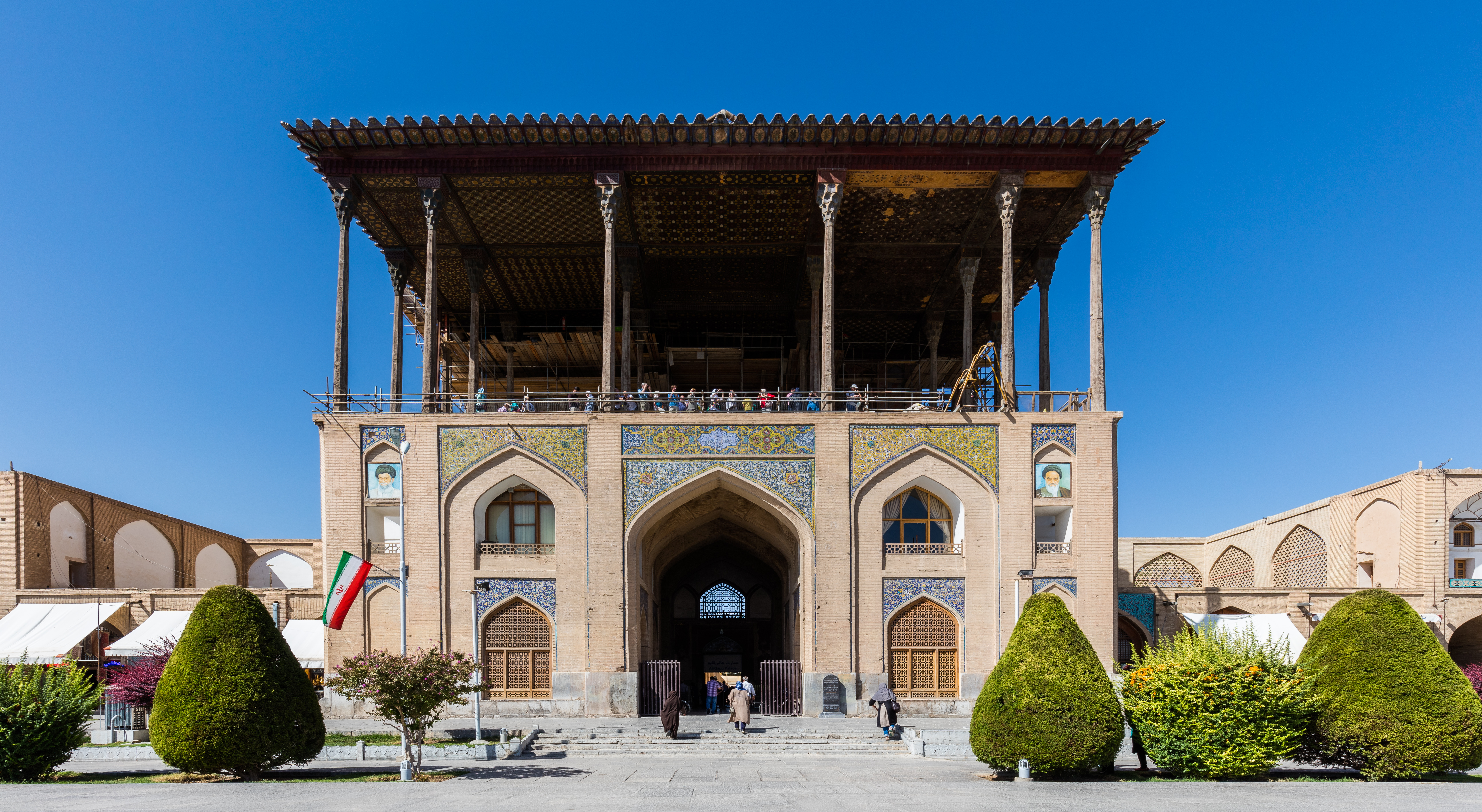 Aali Qapu Palace, Isfahan, Iran